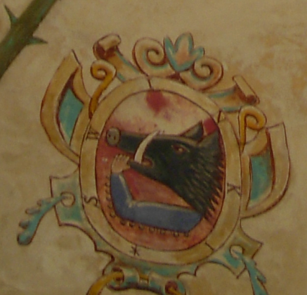 Swinka coat of arms in Baranow-Sandomierski castle. Detail of Image:Baranów Sandomierski - castle 11.JPG full resolution, by User:Piotrus and tagged with the same “self2.GFDL.cc-by-sa-2.5,2.0,1.0” license.